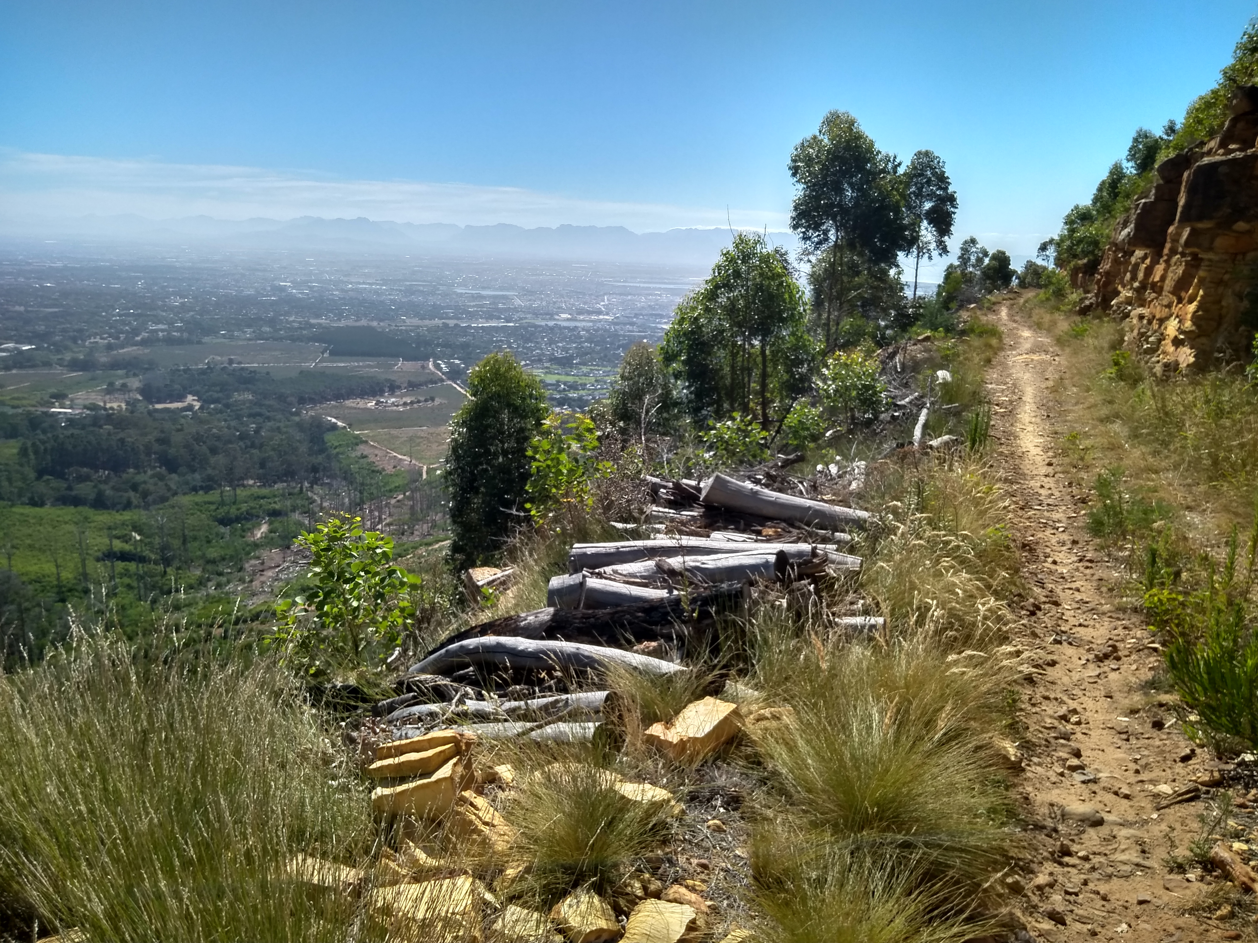 View from the mountain biking track up to the gate at the top of Ou Kaapse Weg.